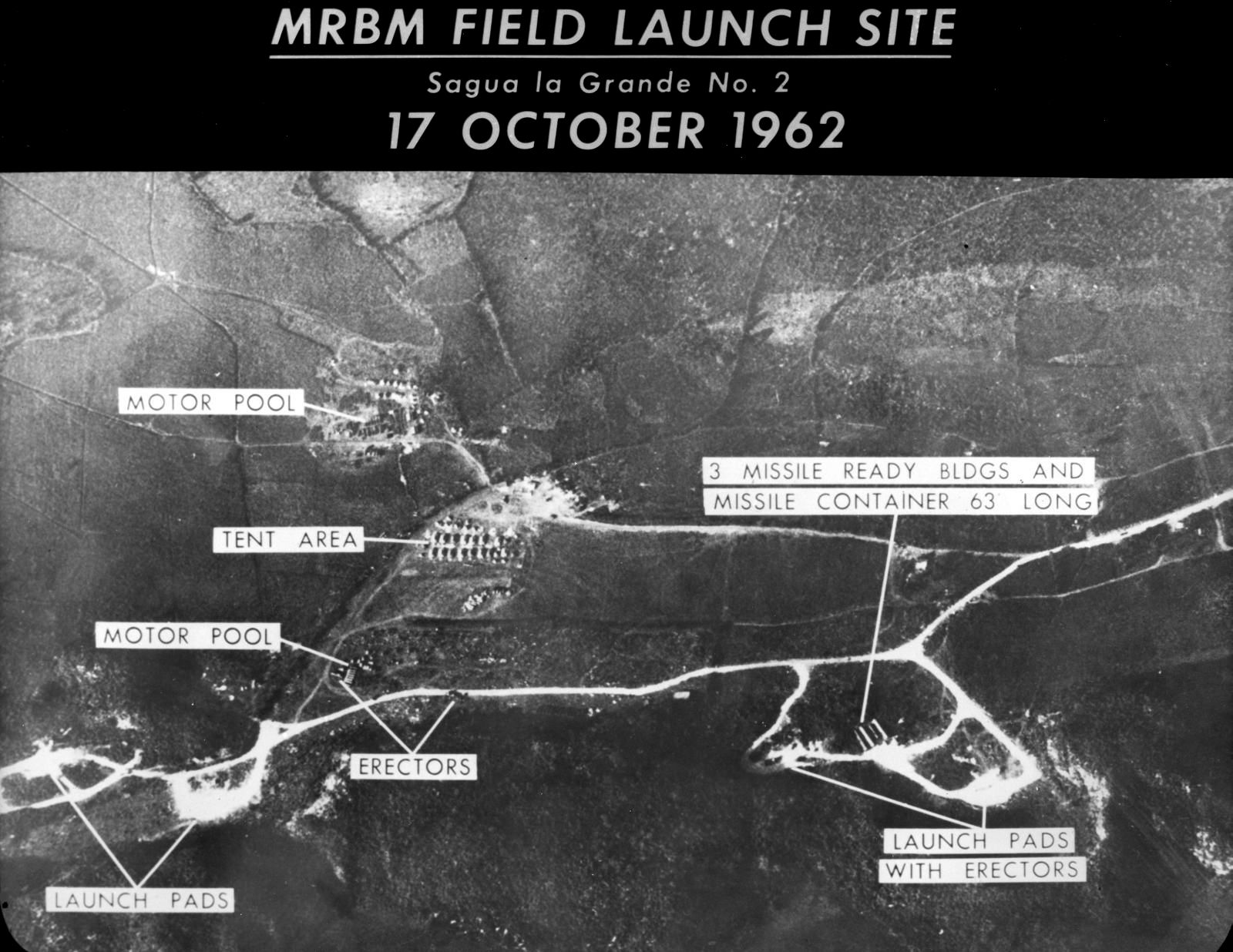 Cuba - An aerial view showing the medium range ballistic missile field launch site number two at Sagua la Grande. October 17, 1962